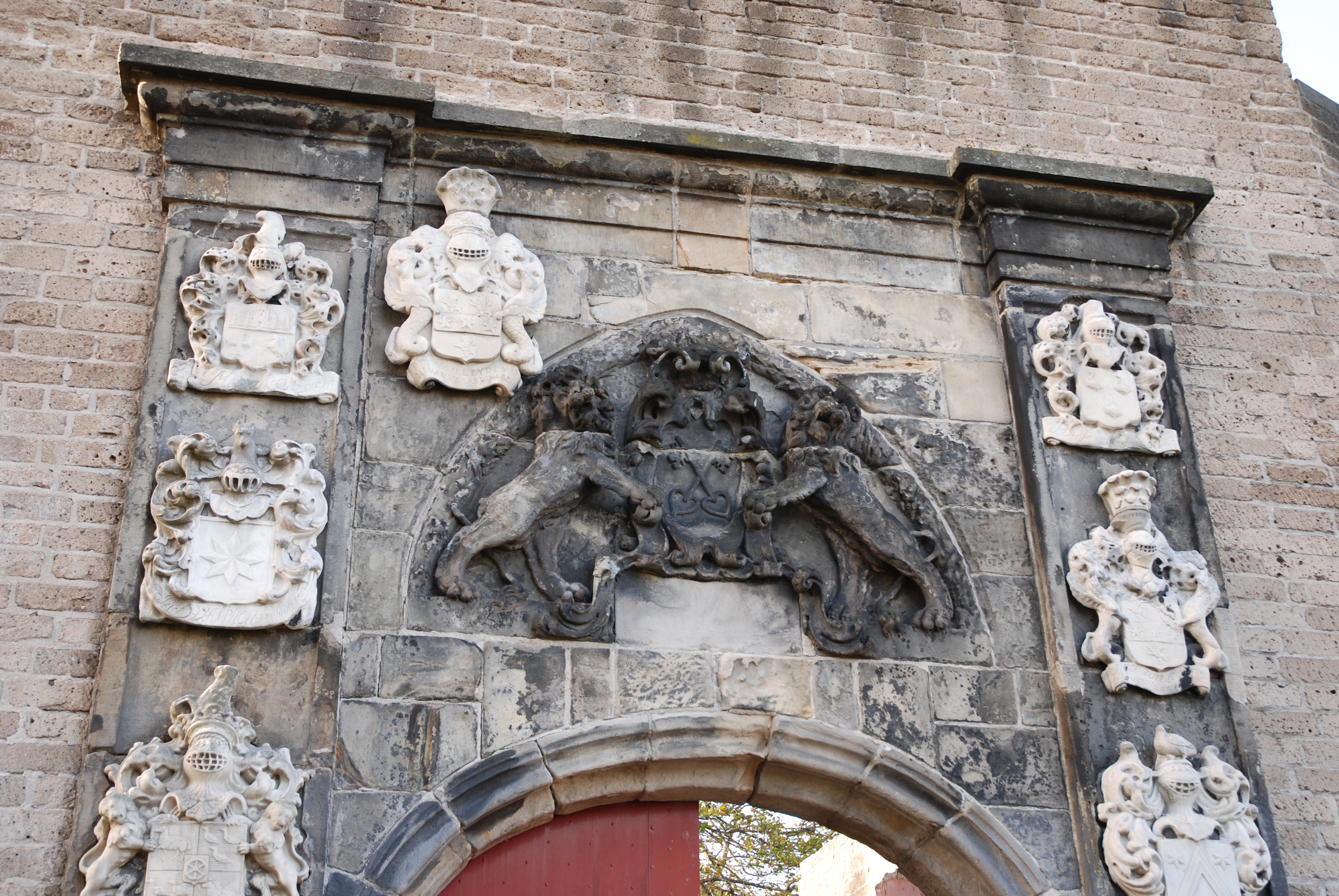 Sculpture at the Burcht in Leiden Sculptor: Rombout Verhulst Date: 1662